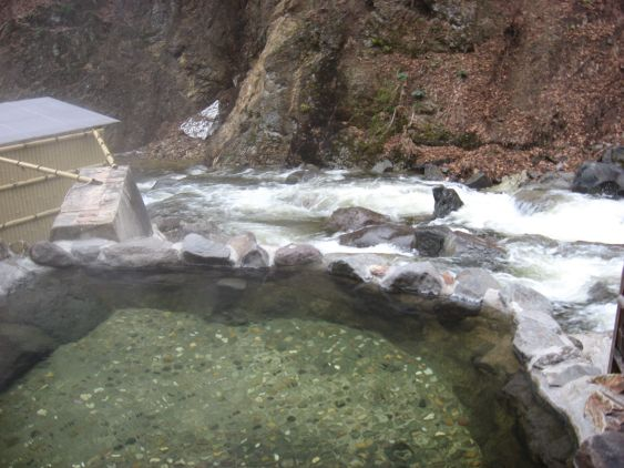 Odaira hot spa (City of Yonezawa, Japan)